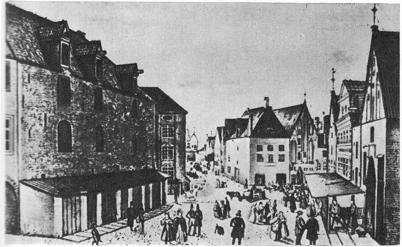 Vana turg street in the 18th century